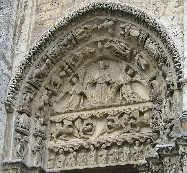 This is the left or Ascension tympanum, one of three tympana forming the Royal Portal of Chartres Cathedral. The central theme is Christ's ascension, but around the edges are the signs of the Zodiac and the "Labours of the Months", as also found in the Cathedrals of Vezelay and Autun. (See: Chauncey Wood, Chaucer and the Country of the Stars, Princeton, 1970. pp. 54-55.)